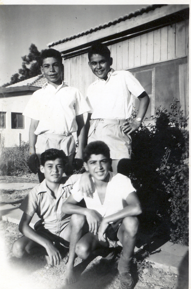 Education in Israel